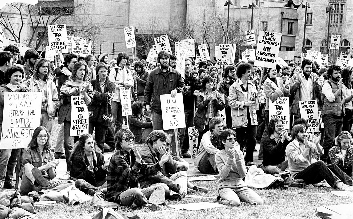 Photograph of the TAA Strike, 1980. Local Identifier: UW.uwar00200.bib